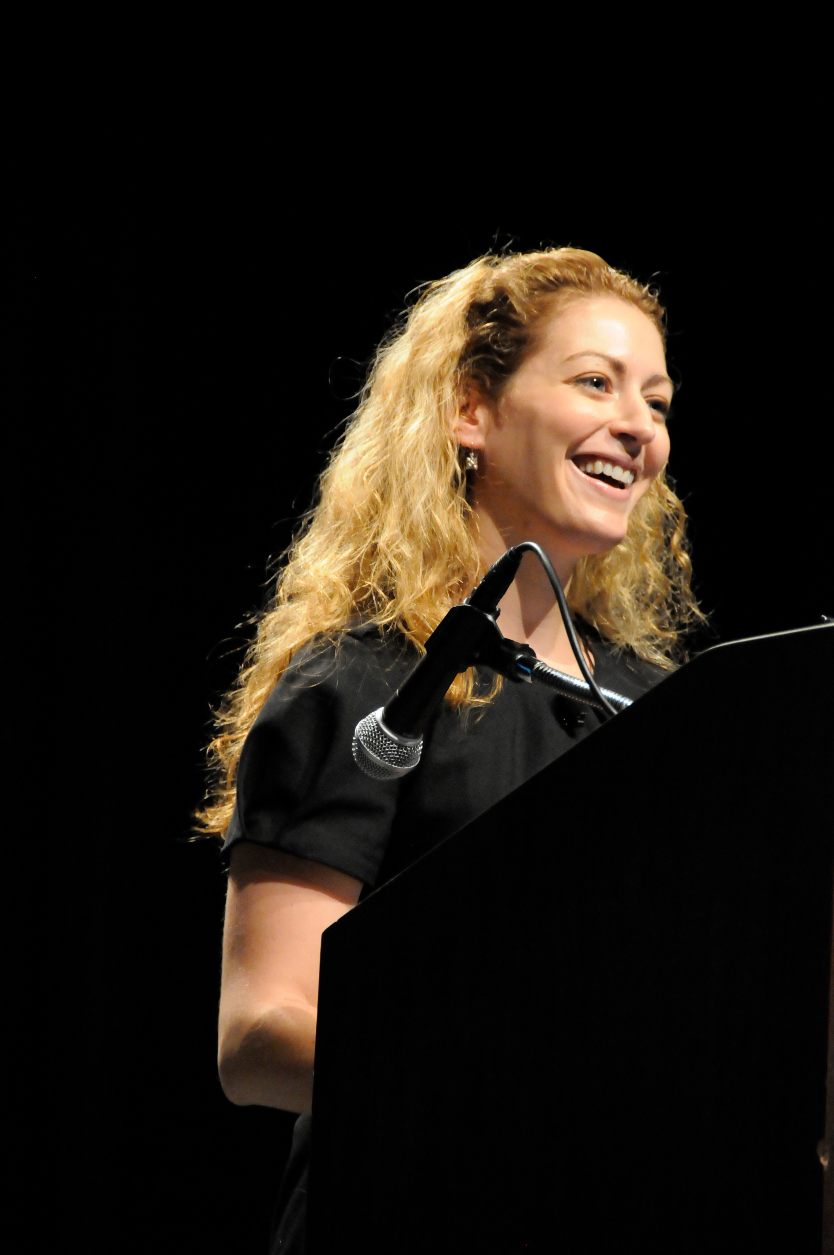 Jane McGonigal at South by Southwest in 2008.